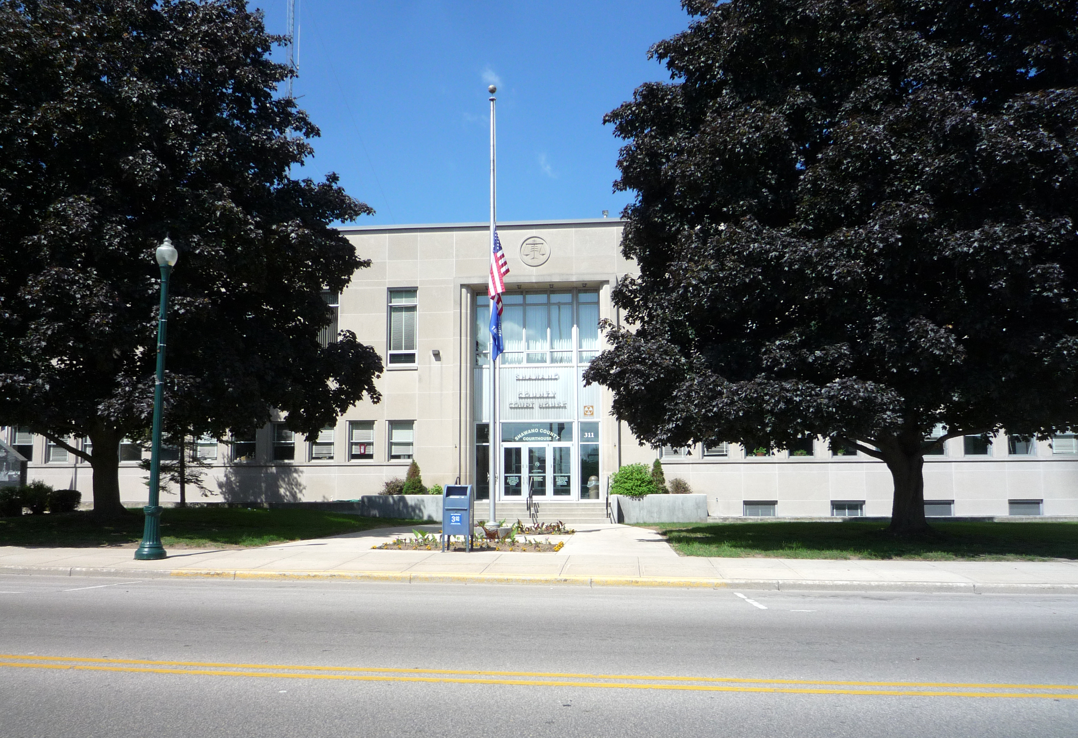 Shawano County Courthouse, Shawano, Wisconsin, USA.